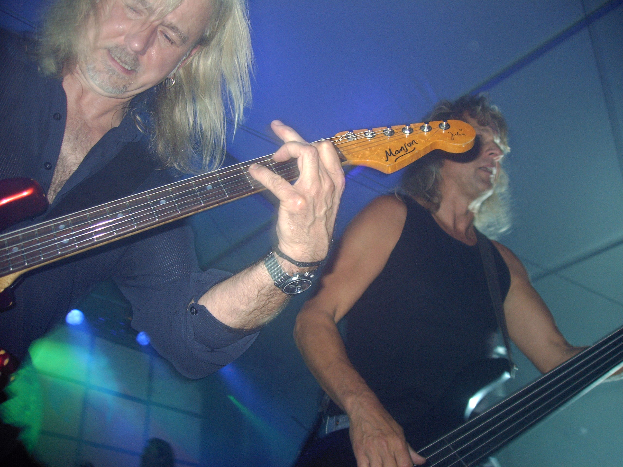 Karat in concert (Bernd Römer and Christian Liebig)